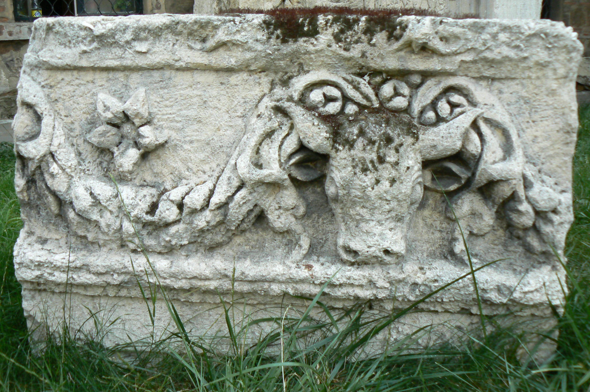 An exhibit in the Lapidarium in front of the National Archeological Museum in Sofia, Bulgaria